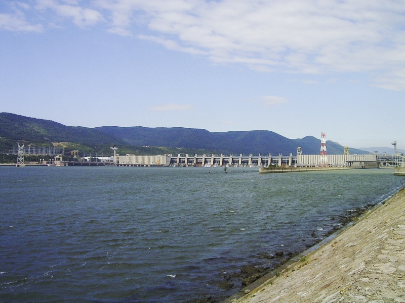 Iron Gate I Hydroelectric Power Station; view from downstream Romanian side towards the dam (left parts in Serbia), 400 kV overhead power line crossing